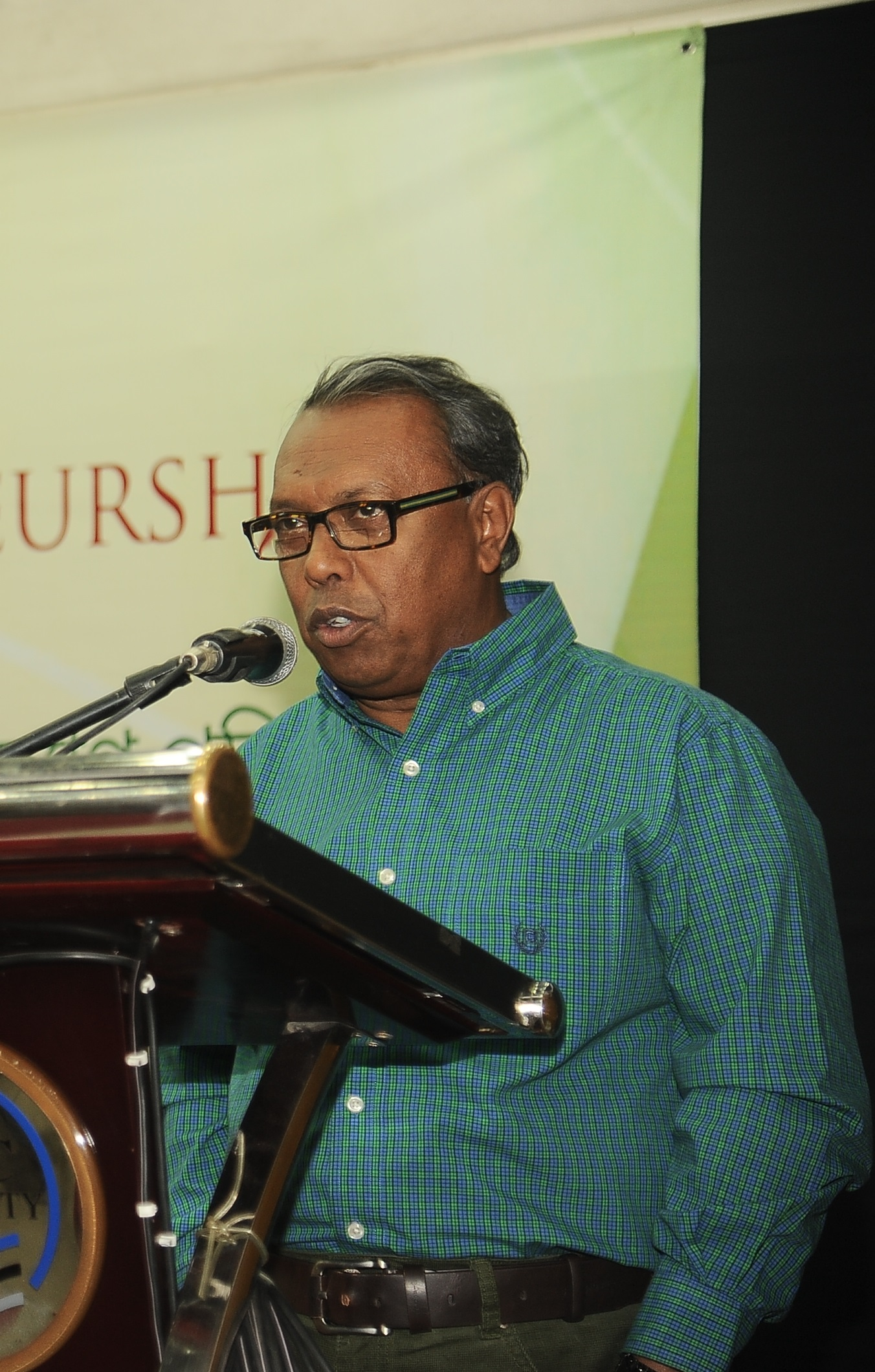 Shykh Seraj addressing the students in BRAC University.